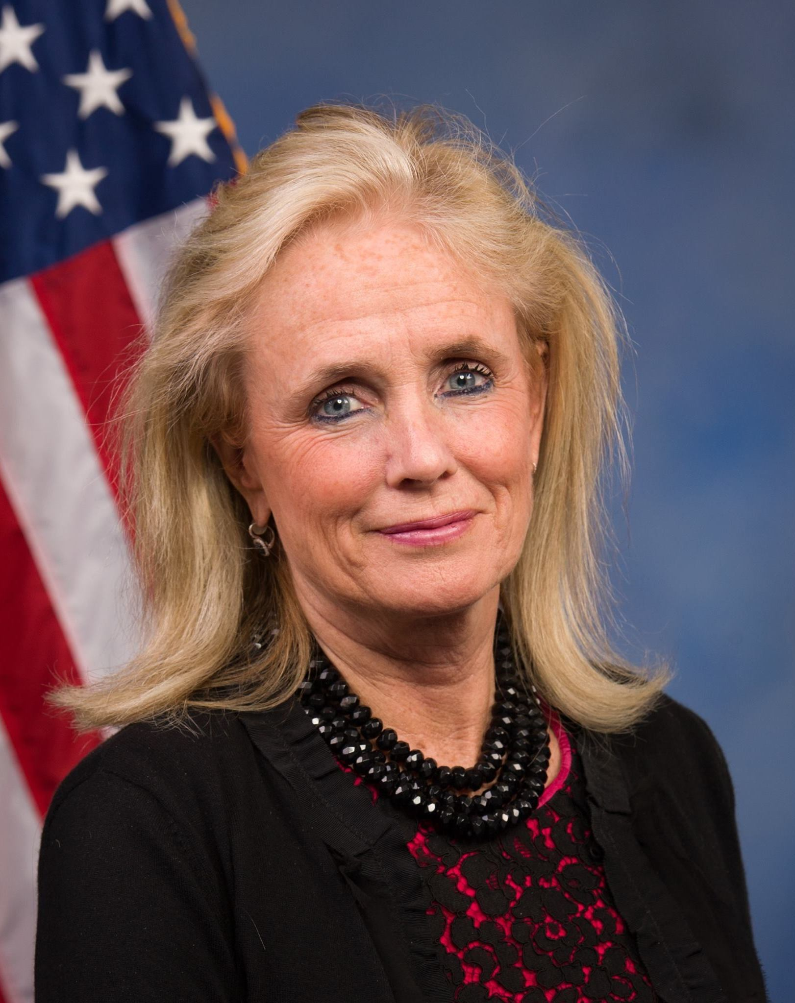 Debbie Dingell official portrait 114th Congress